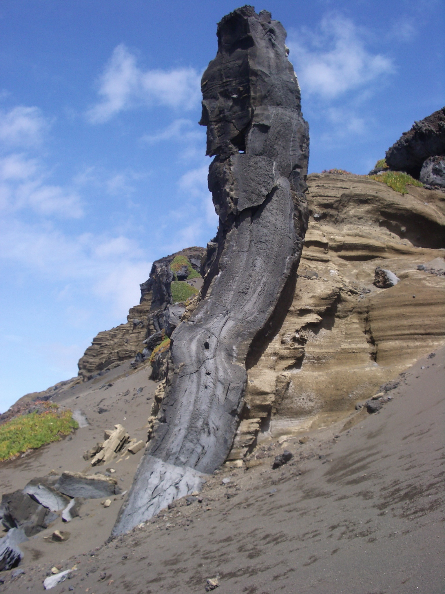 Basaltic dyke exposed by erosion, with light brown, layered hyaloclastite. Fayal island, Azores, Portugal.